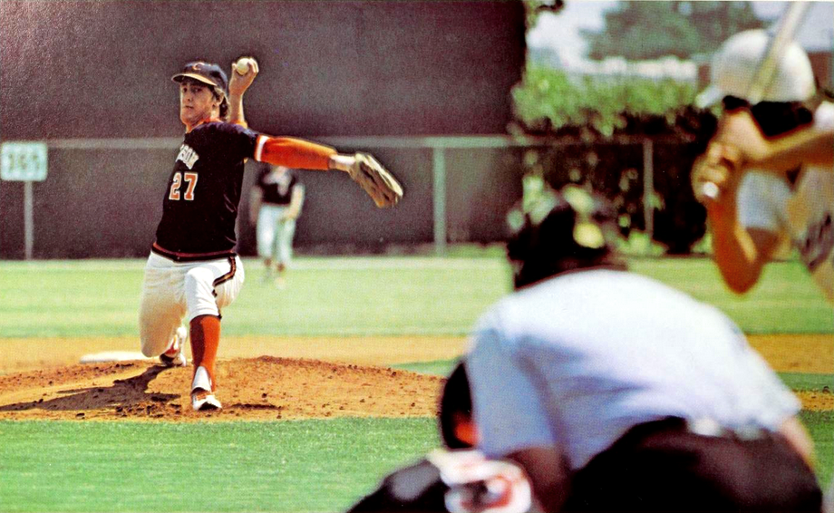 Chuck Porter pitching for Clemson in 1977